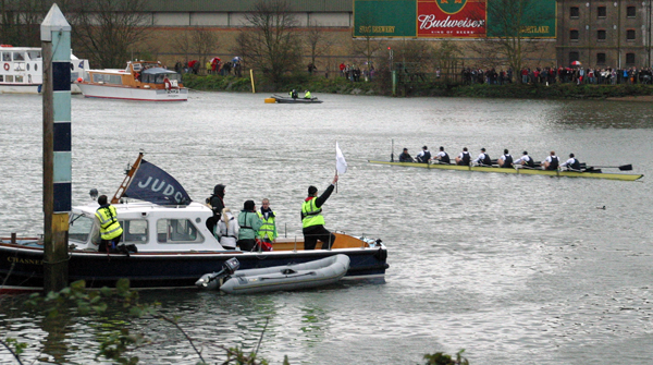 Image of 2008 Oxford & Cambridge Boat Race Finish at Chiswick Bridge (Oxford winners), seen from the North (Middlesex) side of the course. Taken by Pointillist and released into the public domain with no restrictions on re-use.